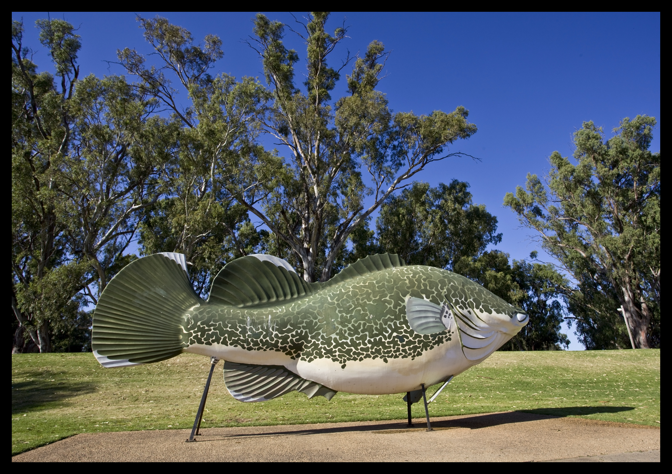 Murray Cod Tocumwal monument